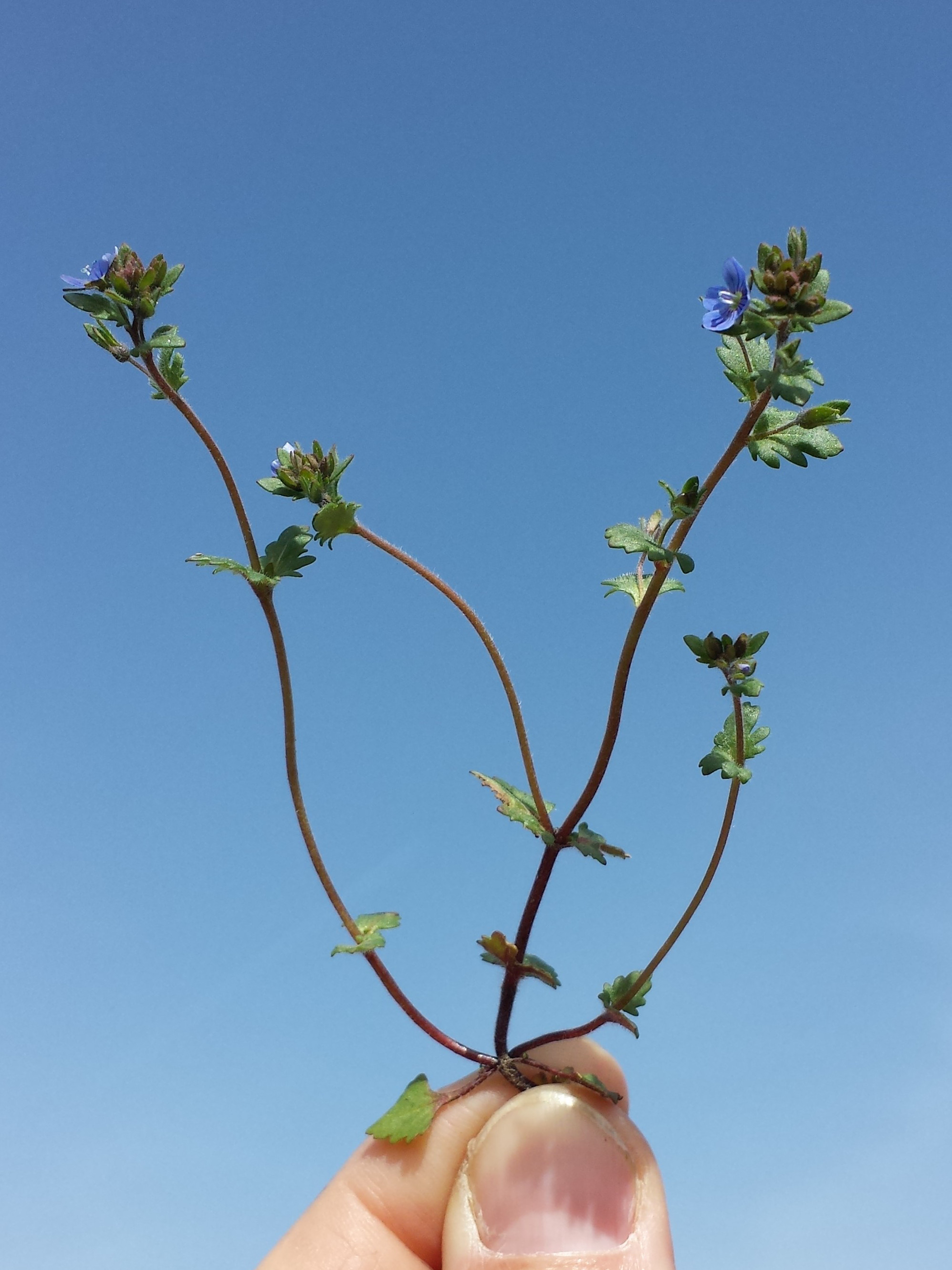 Habitus Taxonym: Veronica praecox ss Fischer et al. EfÖLS 2008 ISBN 978-3-85474-187-9 Location: hollow way near Großebersdorf, district Mistelbach, Lower Austria - ca. 230 m a.s.l. Habitat: upper edge of a hollow way